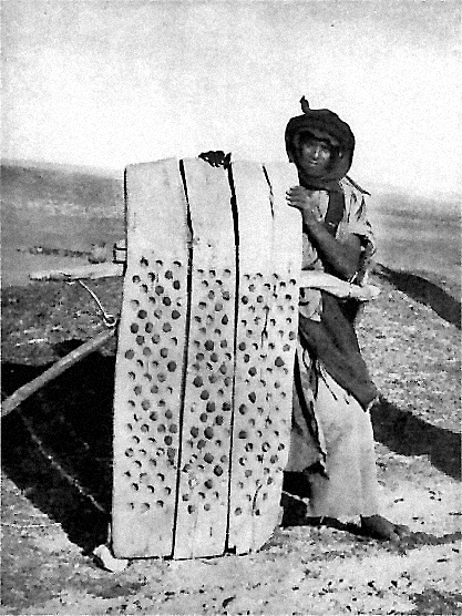 Threshing-sledge from Palestine